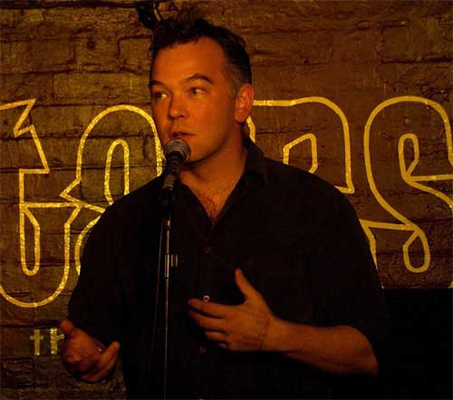 Stewart Lee at "Downstairs at the Kings Head" in London